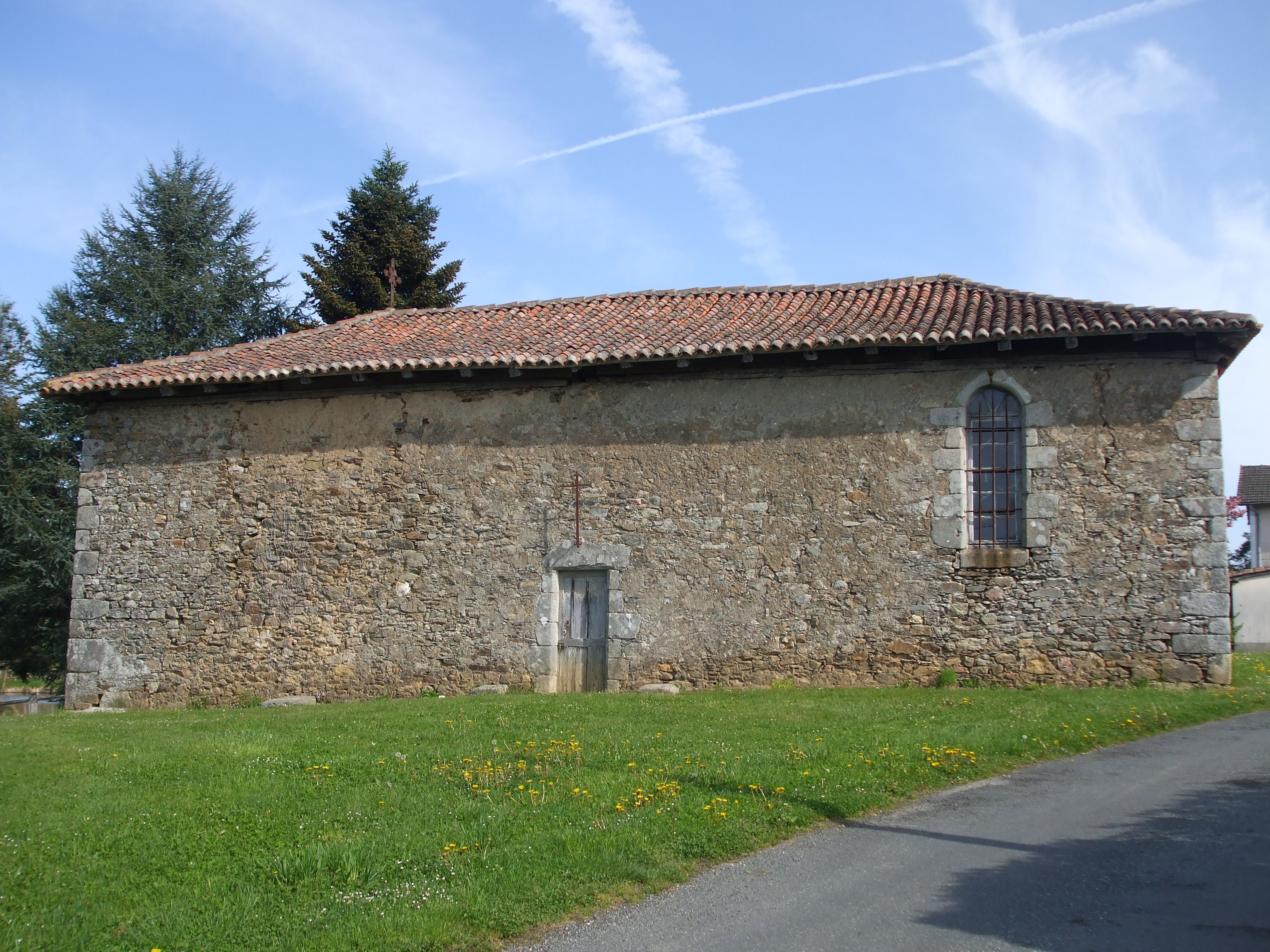 Châlus, Haute-Vienne, France, Notre Dame de Seichaud Chapel